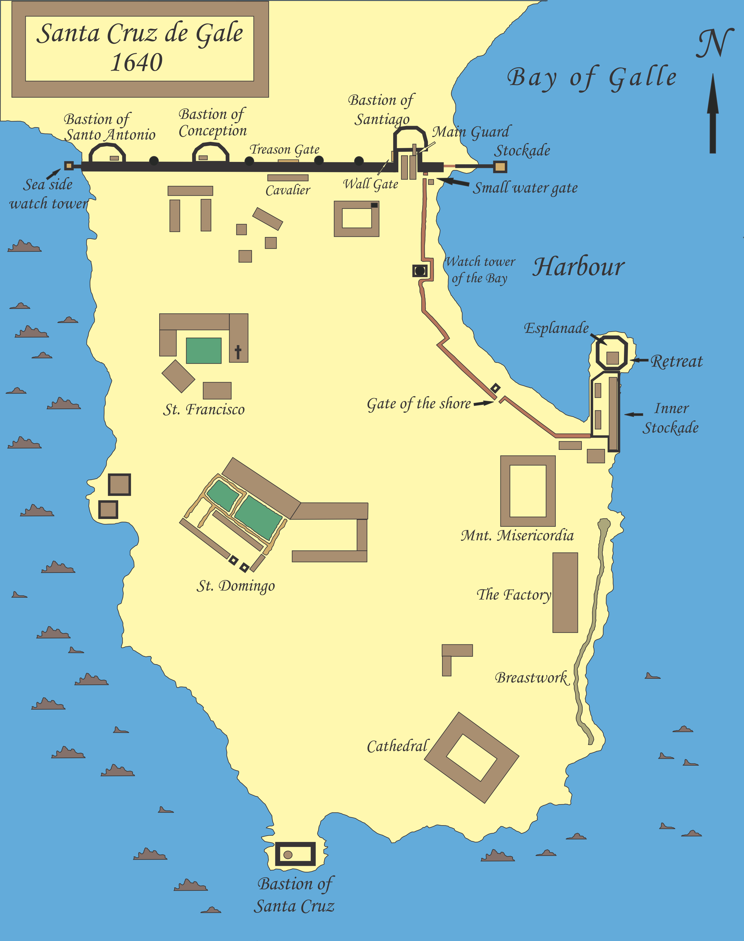 Map of the Portuguese fort, Santa Cruz de Gale, Galle. Please note that this map is showing the arbitrary positions of the defenses and the buildings, and not drawn to the scale. Map based on following sources. Paul E. Peiris, Ceylon the Portuguese Era: being a history of the island for the period, 1505–1658, Volume 2. Tisara Publishers Ltd.: Sri Lanka, 1992. p 269. Fernao de Queyroz, The temporal and spiritual conquest of Ceylon. (SG Perera, Trans.) AES reprint. New Delhi: Asian Educational Services; 1995. p 827-845. ISBN 81-206-0767-8 Antonio Bocarro, Description of Ceylon. (TBH Abeysinghe, Trans.) Journal of the Royal Asiatic Society of Sri Lanka. 1996; XXXIX (special issue): 36-39.